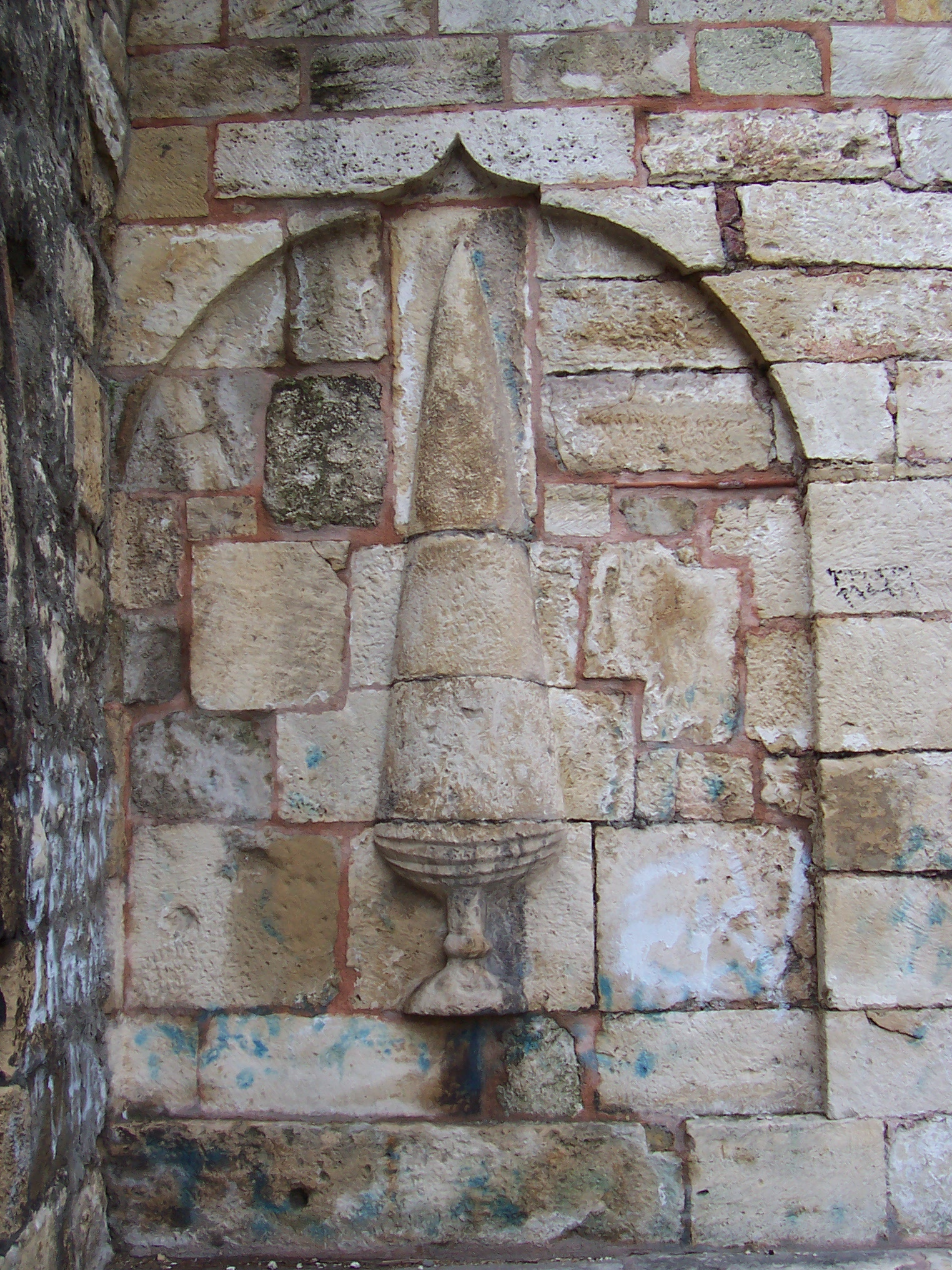 A detail from Mehmed Pasha's fountain in Belgrade Kalemegdan fortress. Photograph Copyright 2006 by Nikola Smolenski.